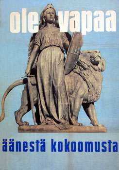 Finnish election poster from 1948, urging people to vote for the National Coalition Party.